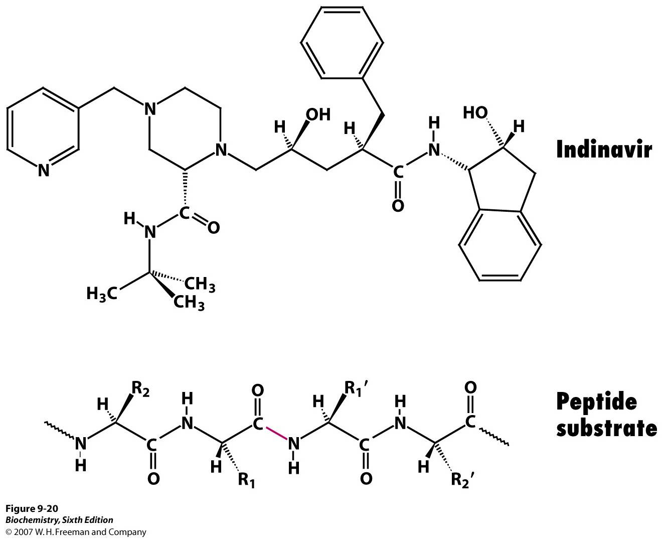 HIV inhibitor structure